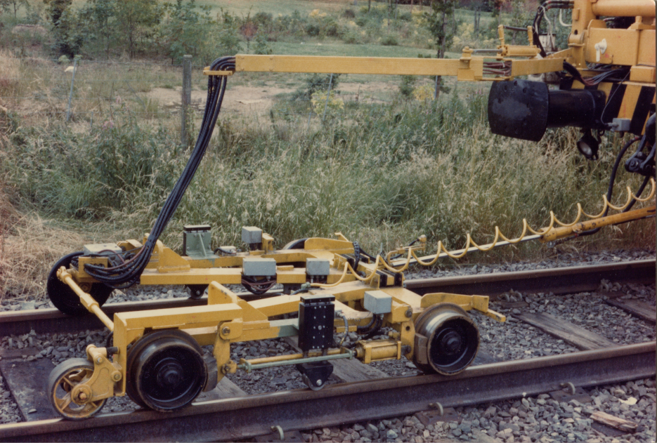 This is a closeup photograph of the "frog" of PBI'84.